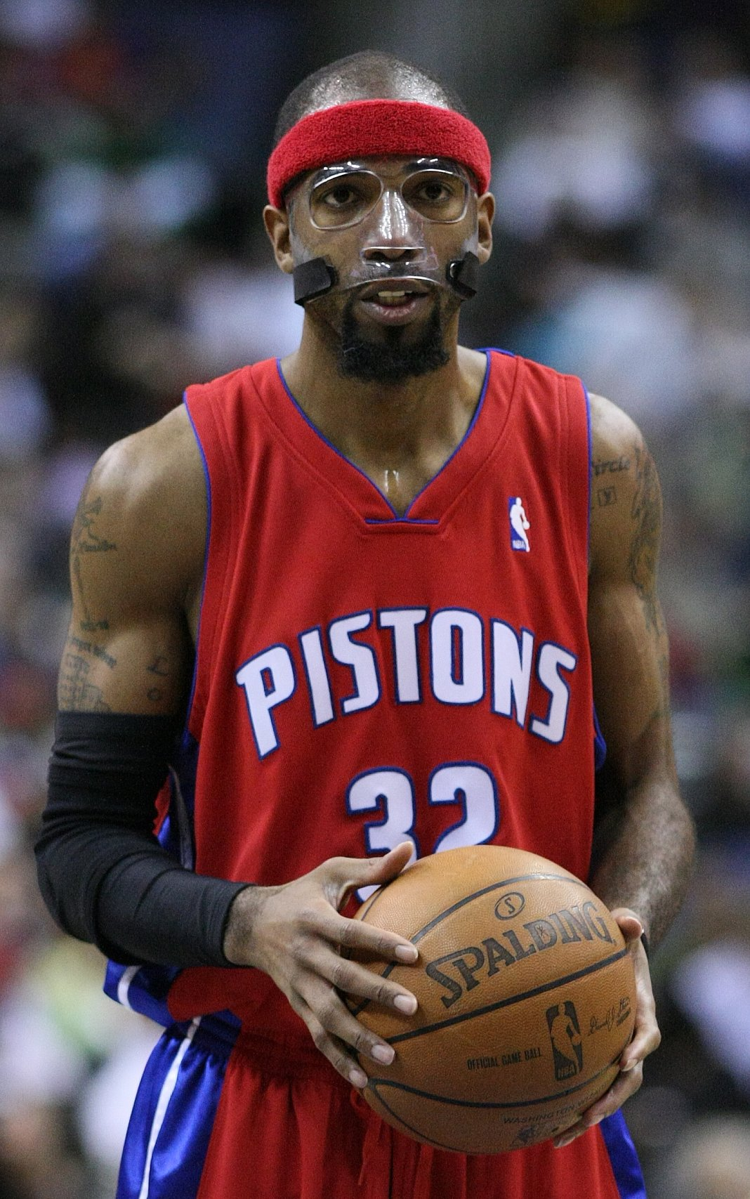 Richard Hamilton, of the National Basketball Association's Detroit Pistons, during a 2008 basketball game against the Washington Wizards.